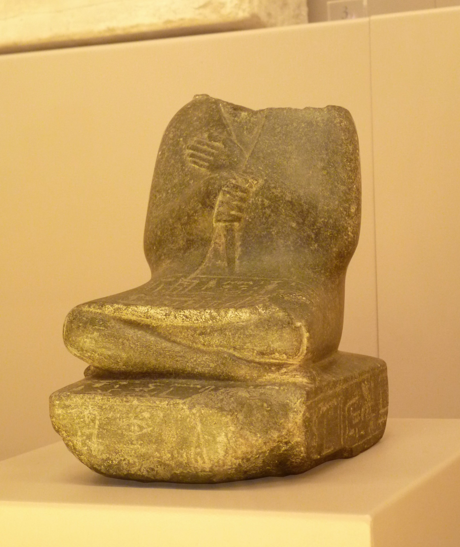 Seated, cloaked funerary statue of the Chancellor of the king of Lower Egypt and Overseer of the district Senebhenaf, son of the vizier Ibiaw and the lady of the house Rensonb. Microdiorite (H. cm 14.5) probably from the temple of Osiris at Abydos, probably reign of Wahibre Ibiaw/Merneferre Ay (13th dynasty), Second intermediate period. [ref: Labib Habachi, "The Family of Vizier Ibia and His Place Among the Viziers of the Thirteenth Dynasty", in Studien zur altägyptischen Kultur, 11 (1984), p. 113-126.] Archeological Museum of Bologna (Italy), Palagi (Nizzoli) coll. KS 1839.